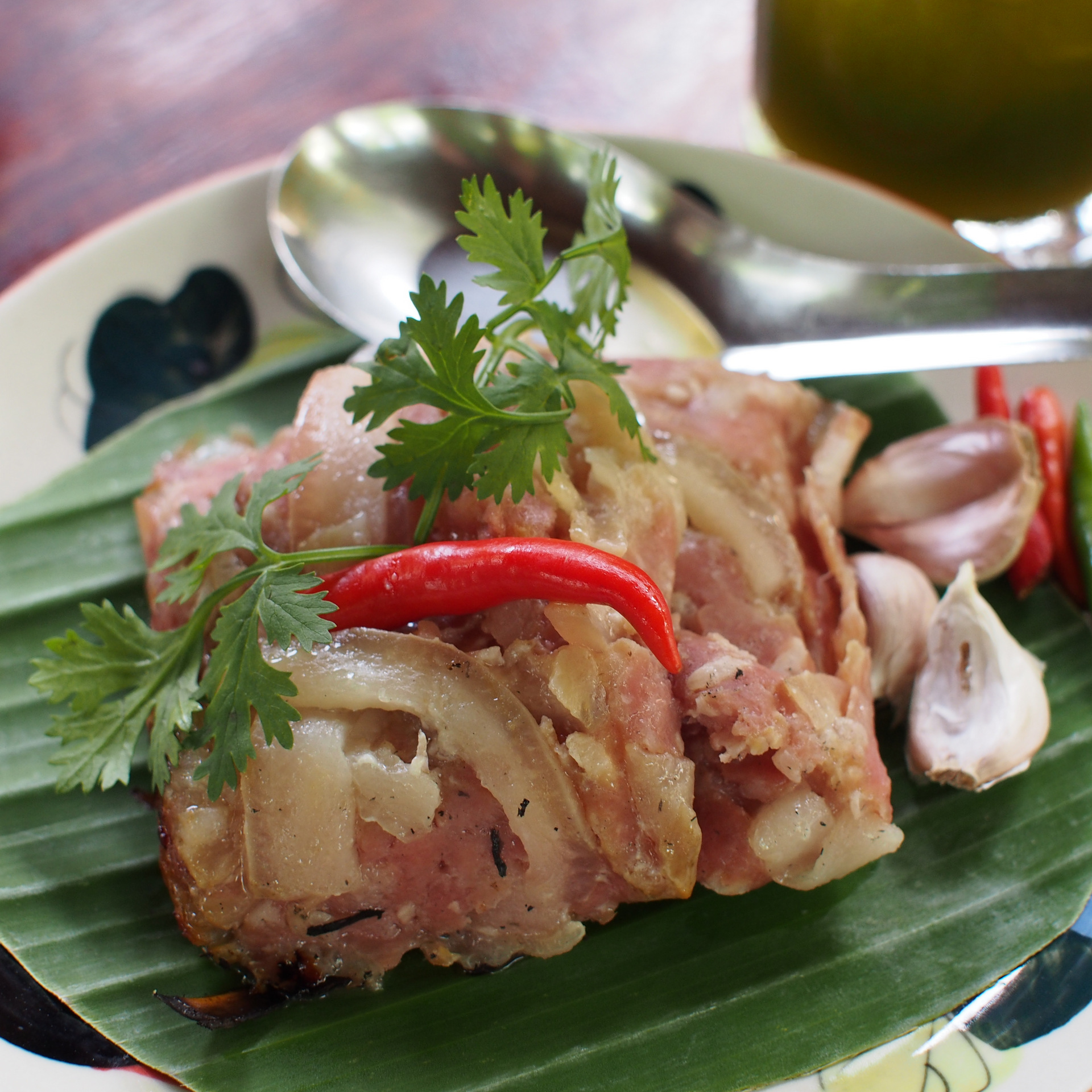 Chin som mok (Thai script: จิ๊นส้มหมก) is a speciality of northern Thailand. It is pork (both pork skin and pork meat) that is fermented together with cooked sticky rice, and then grilled inside a banana leaf. It is the northern Thai version of naem sausage.